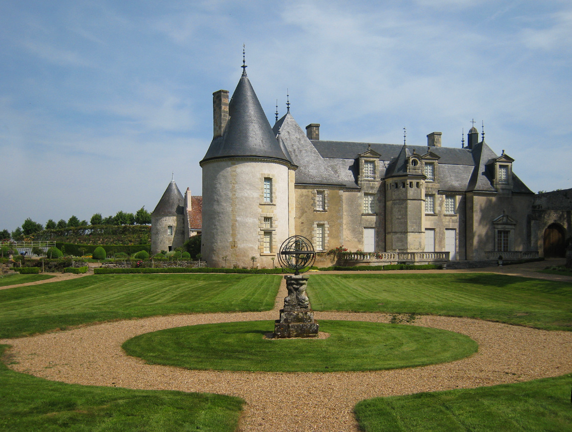 Castle of Chatonnière near the village of Azay-le-Rideau in France